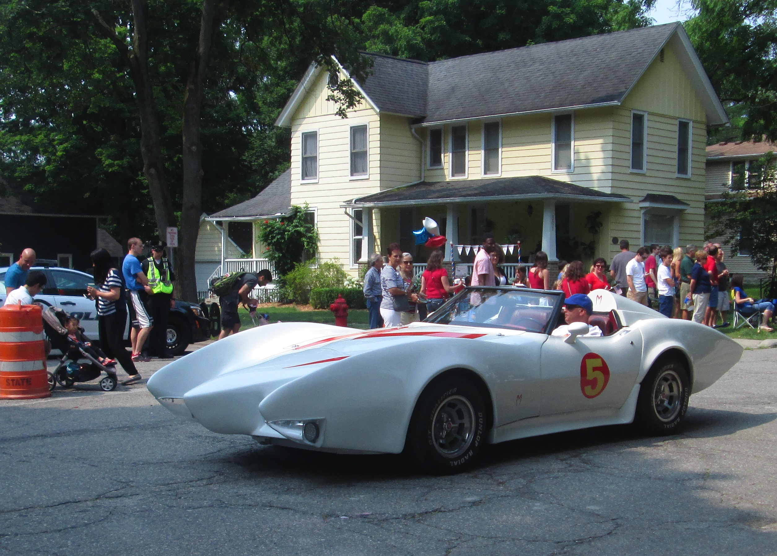 Mach Five from Speed Racer cartoon at Northville, Michigan Fourth of July Parade